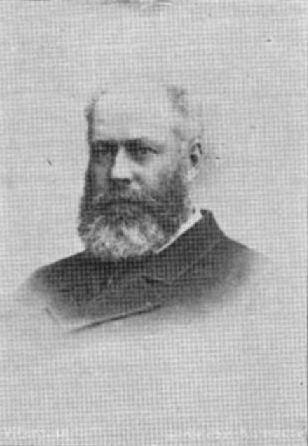 Francis James Garrick, represented Christchurch City in the House of Representatives. Photo included in The Cyclopedia of New Zealand [Canterbury Provincial District] (1903 edition).